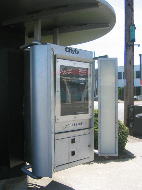 A Speakers' Corner booth located outside the CKVU building in Vancouver.